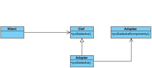 Another use of object adapter